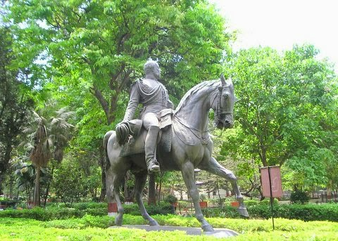 This statue was kept in the garden